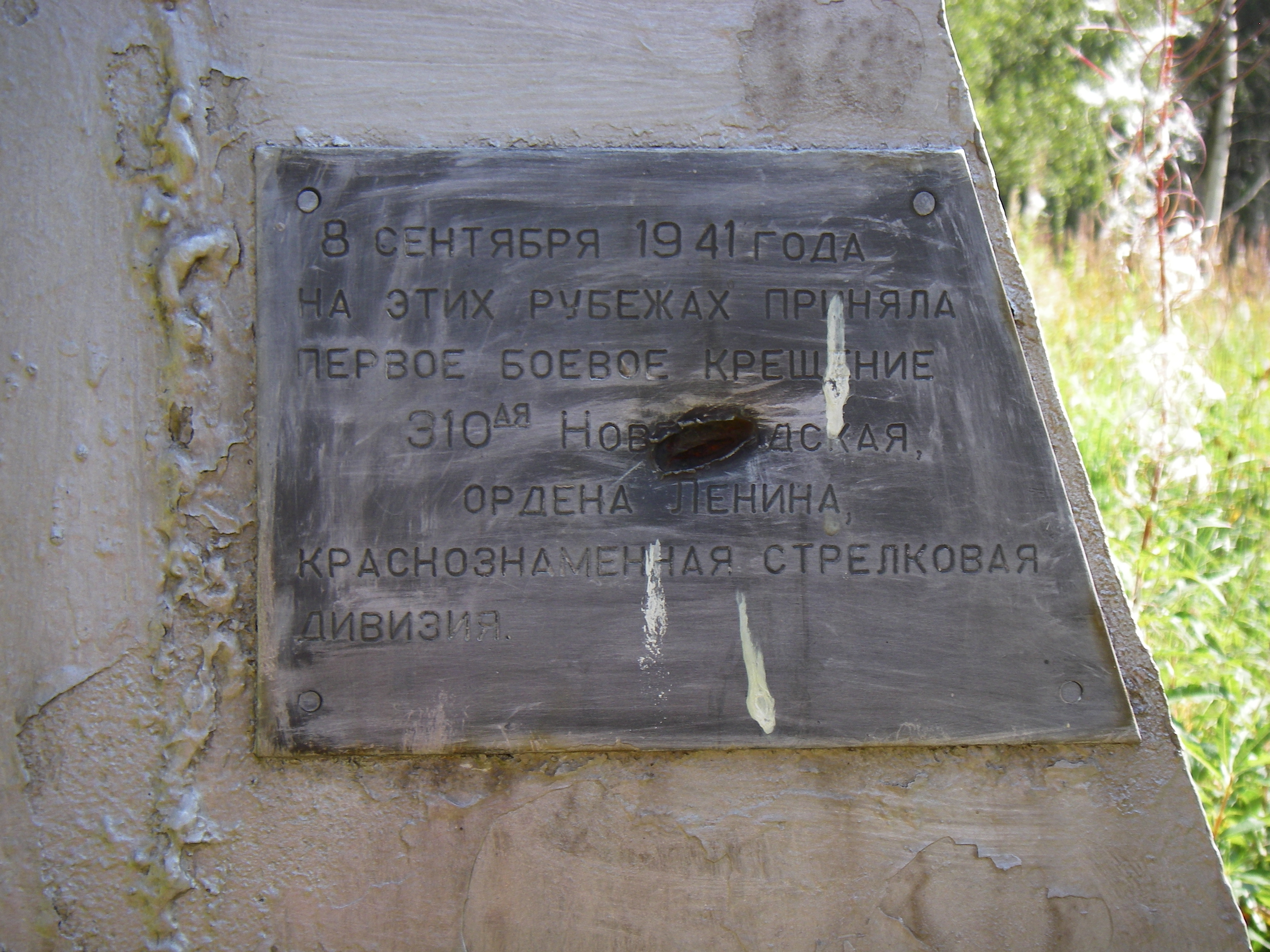 One of the Sinyavino Heights memorials